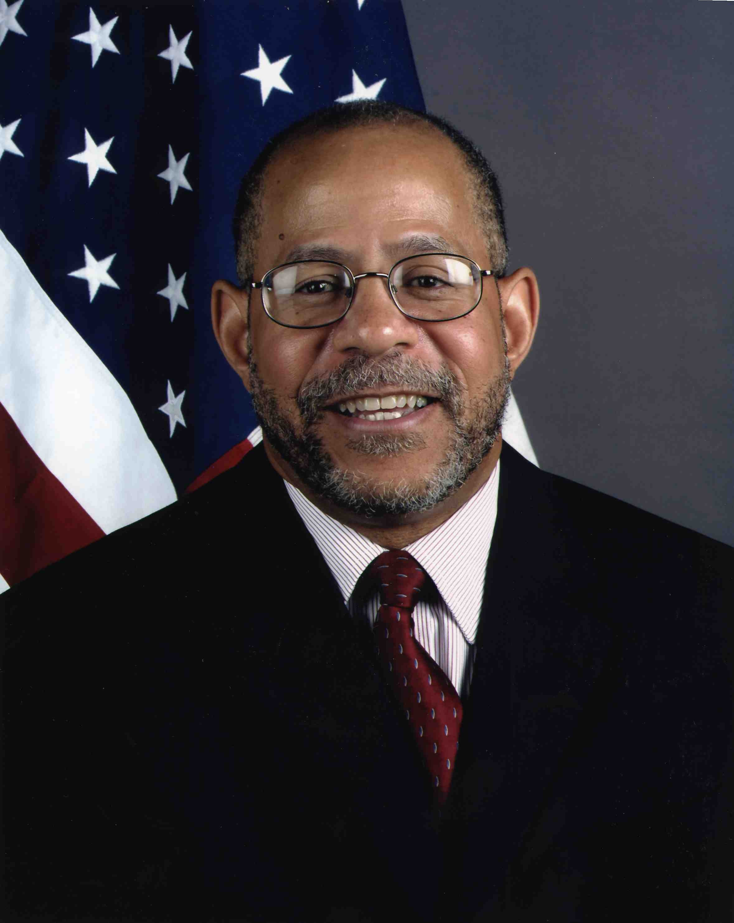 Official Portrait Ambassador of Roger D. Pierce, ambassador of the U.S. to Cape Verde